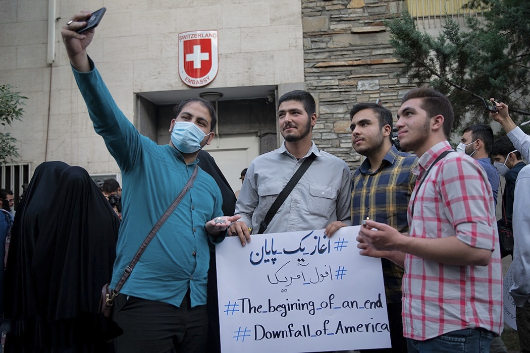 George Floyd protests and memorial in Iran.